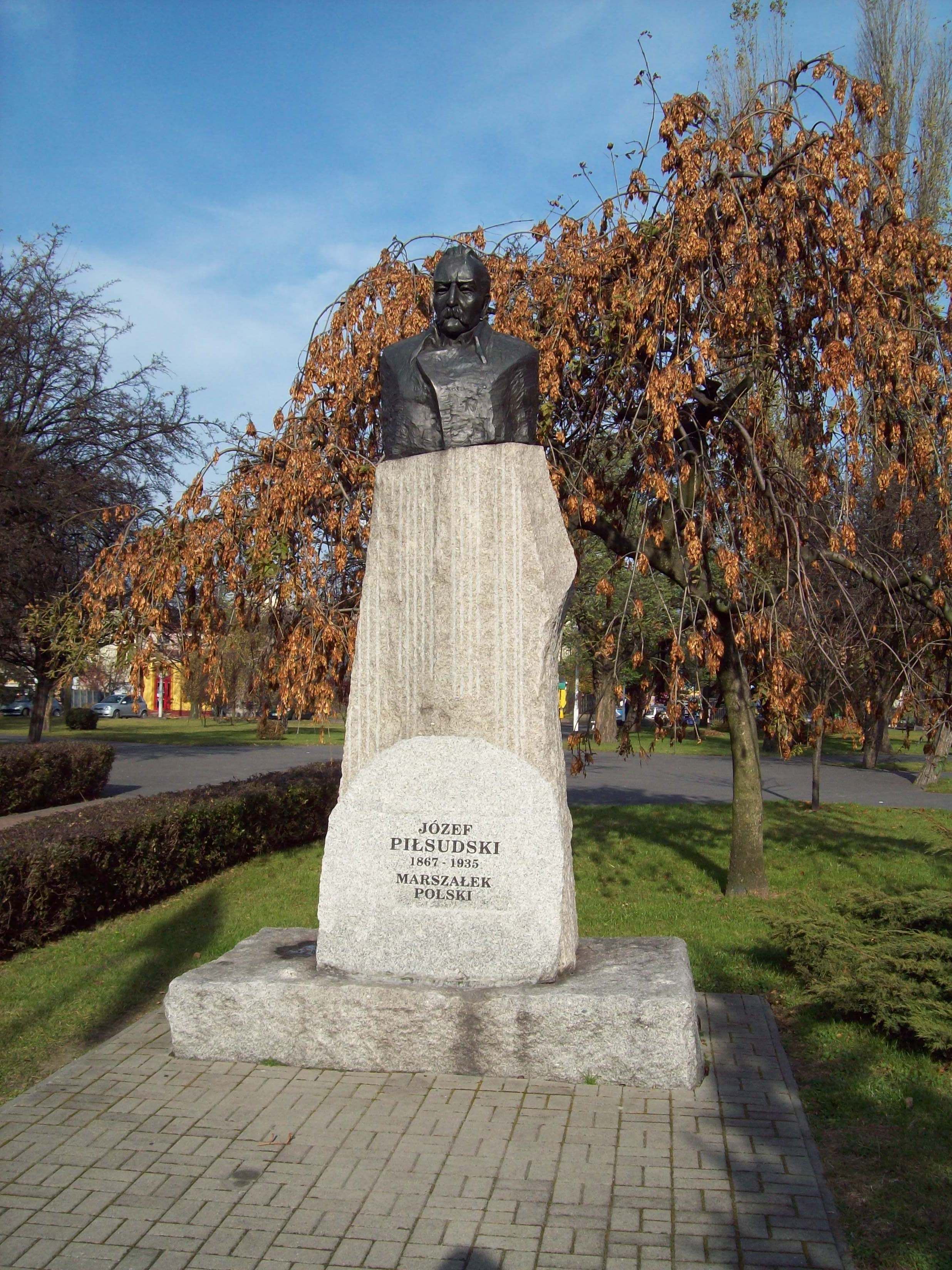 Pilsudski's monument in Zdunska Wola